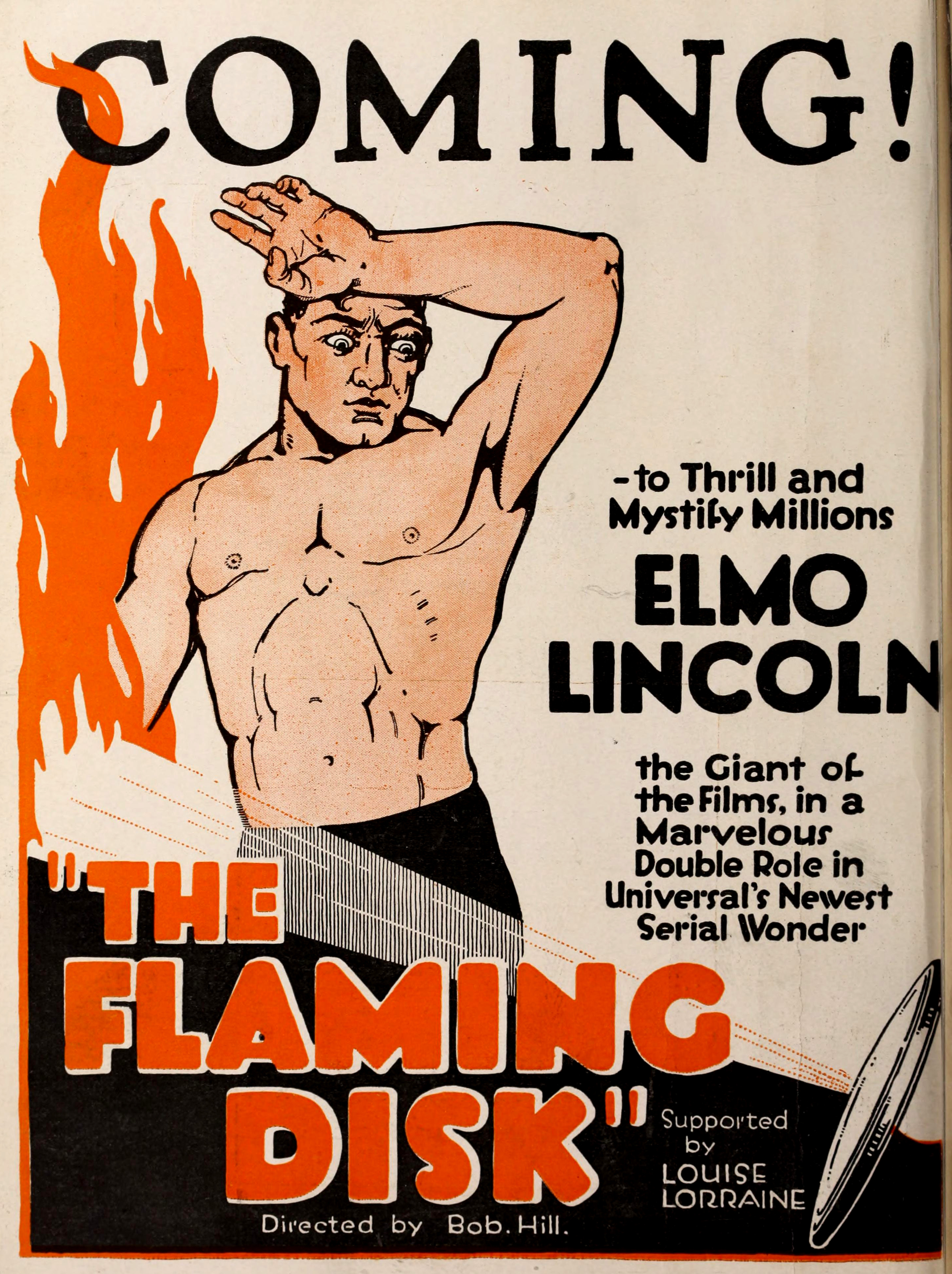 Advertisement for the American film serial The Flaming Disc (1920), here titled The Flaming Disk, with Elmo Lincoln, on page 2 (inside front cover) of the September 11, 1920 Exhibitors Herald.